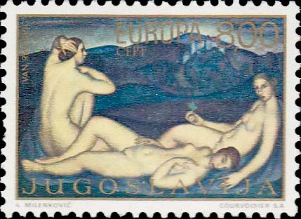 Three Graces by Radovic